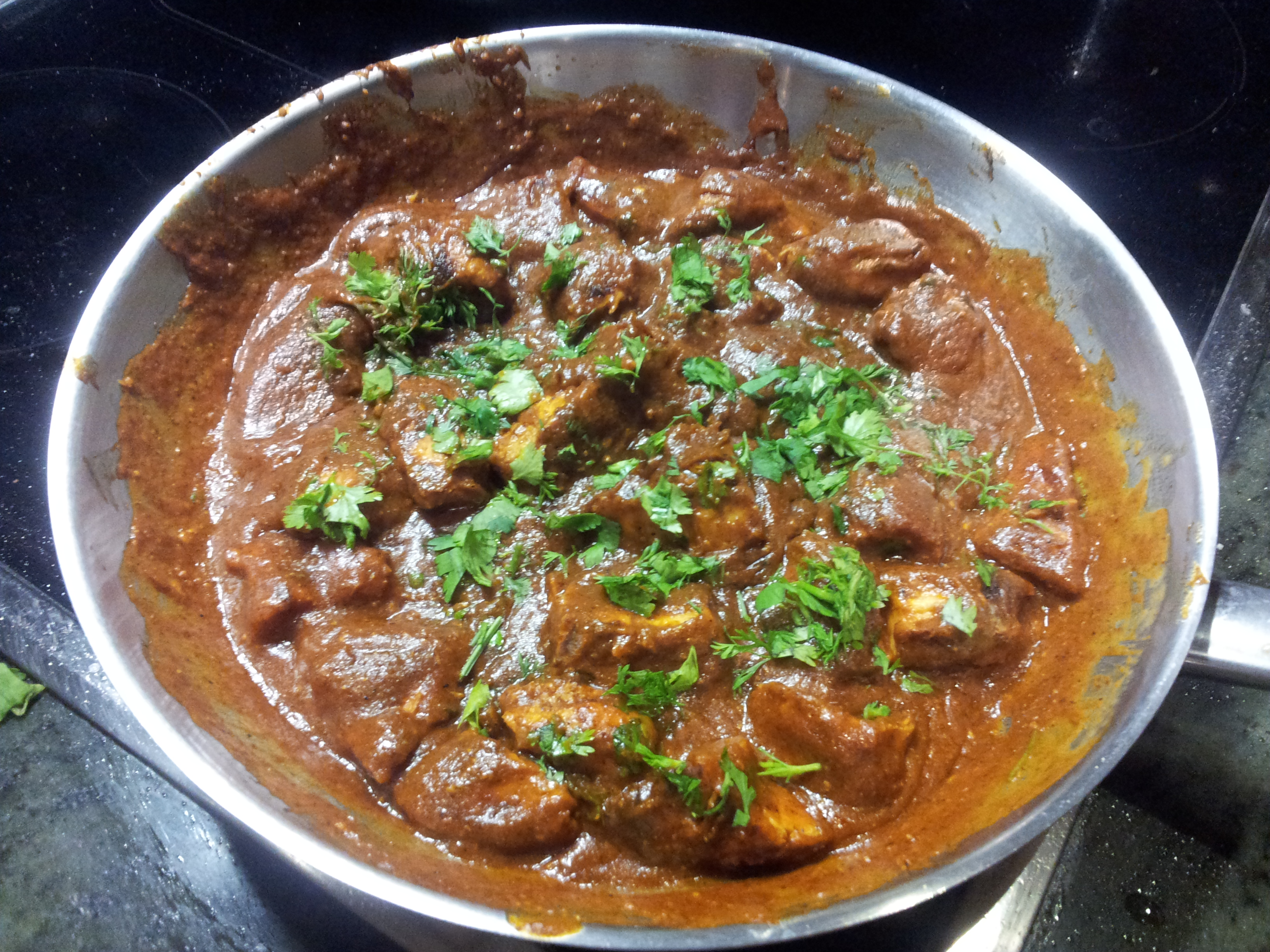 A dish of roasted chicken tikka in a spicy sauce.